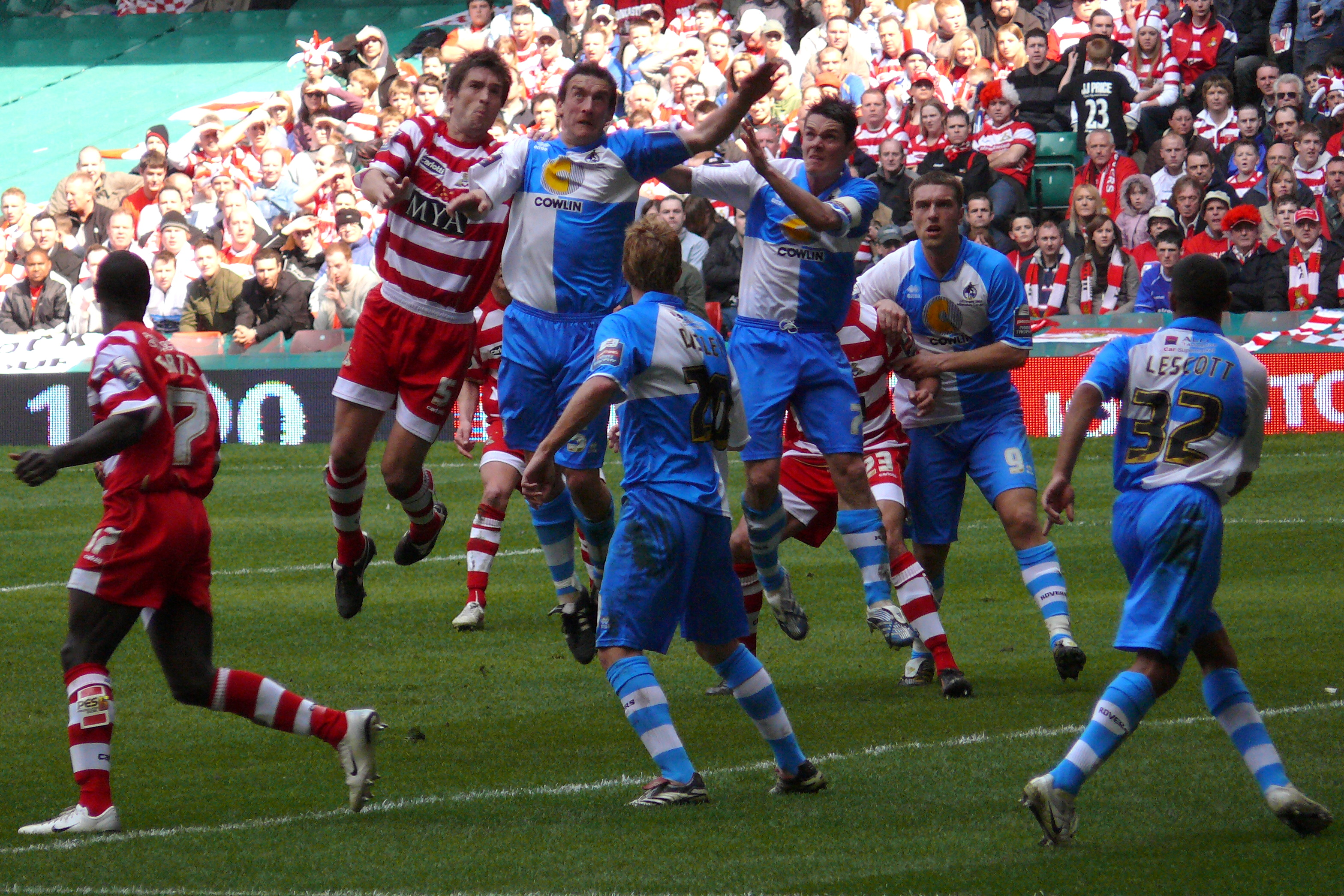 Football League Trophy 2007 Final